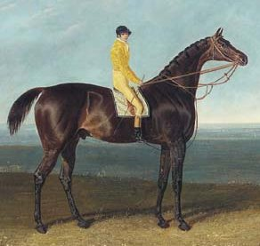 Jack Spigot, winner of the 1821 St. Leger Stakes